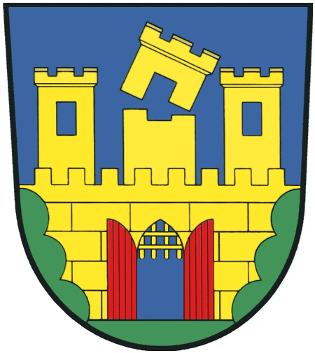 Municipal coat of arms of Týnec village, Břeclav District, Czech Republic.